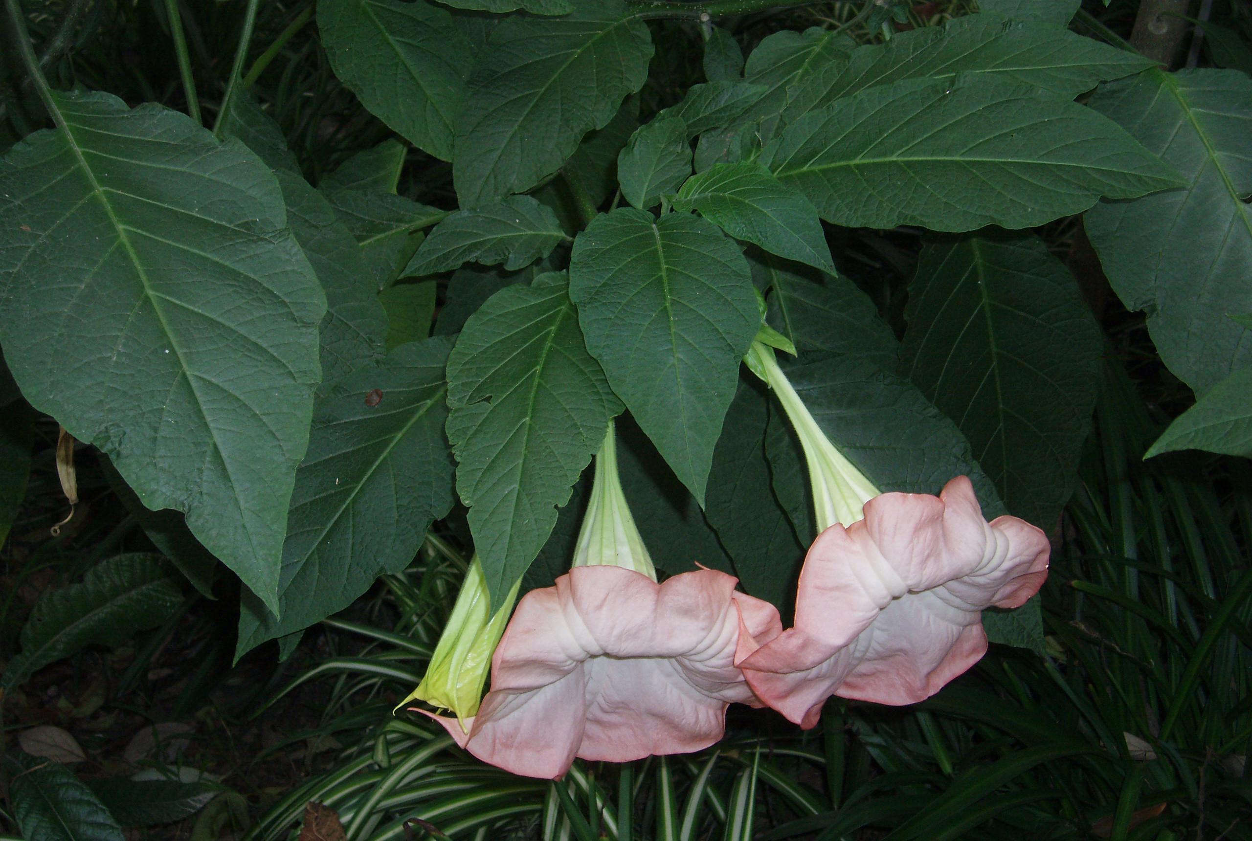 Angel's trumpet flowers, Brugmansia suaveolens